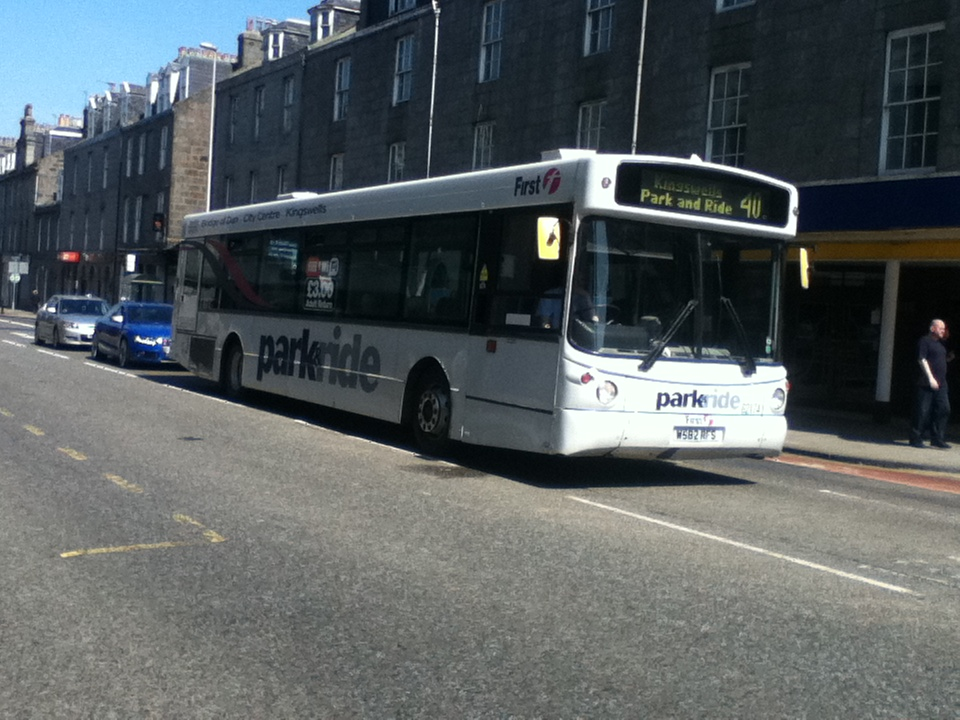 A First Aberdeen, Volvo B10BLE, Alexander ALX300, W582 RFS, seen at Union Street, Aberdeen on 40, Park & Ride